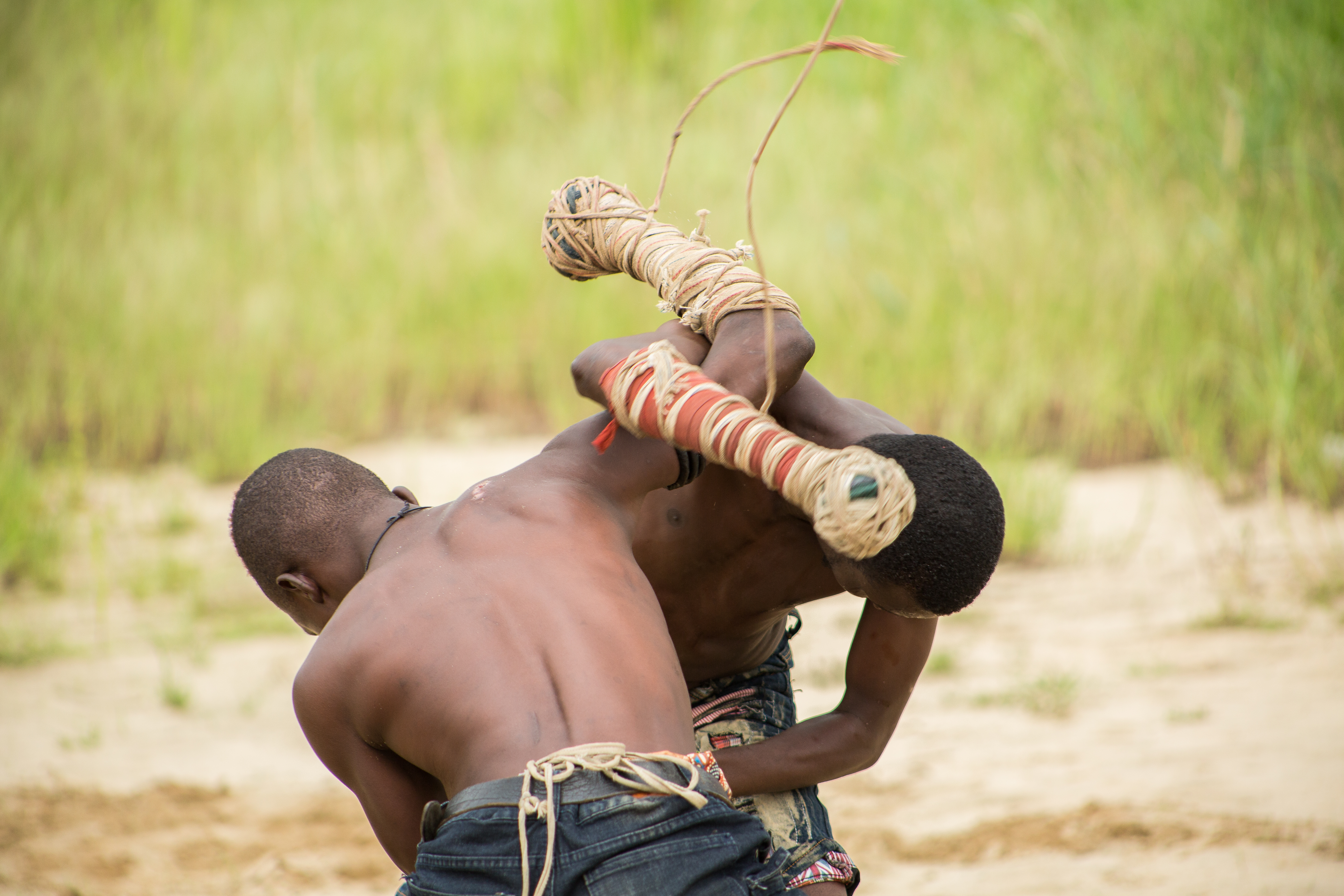 Dambe Fighters In A Heated Battle This is an image of "African people at work" from Nigeria